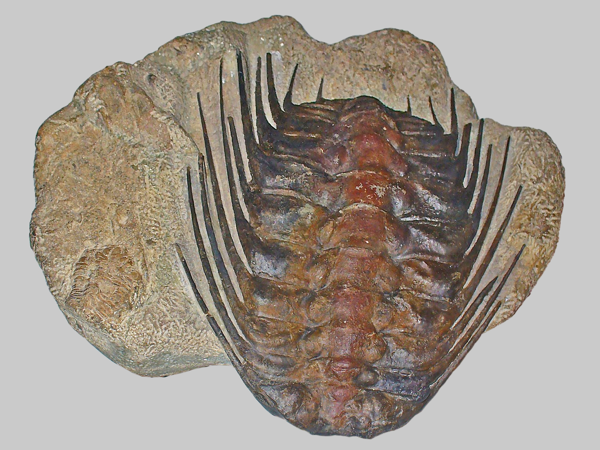 Selenopeltis buchii, Odontopleuridae; Ordovician, Morocco; Staatliches Museum für Naturkunde Karlsruhe, Germany.